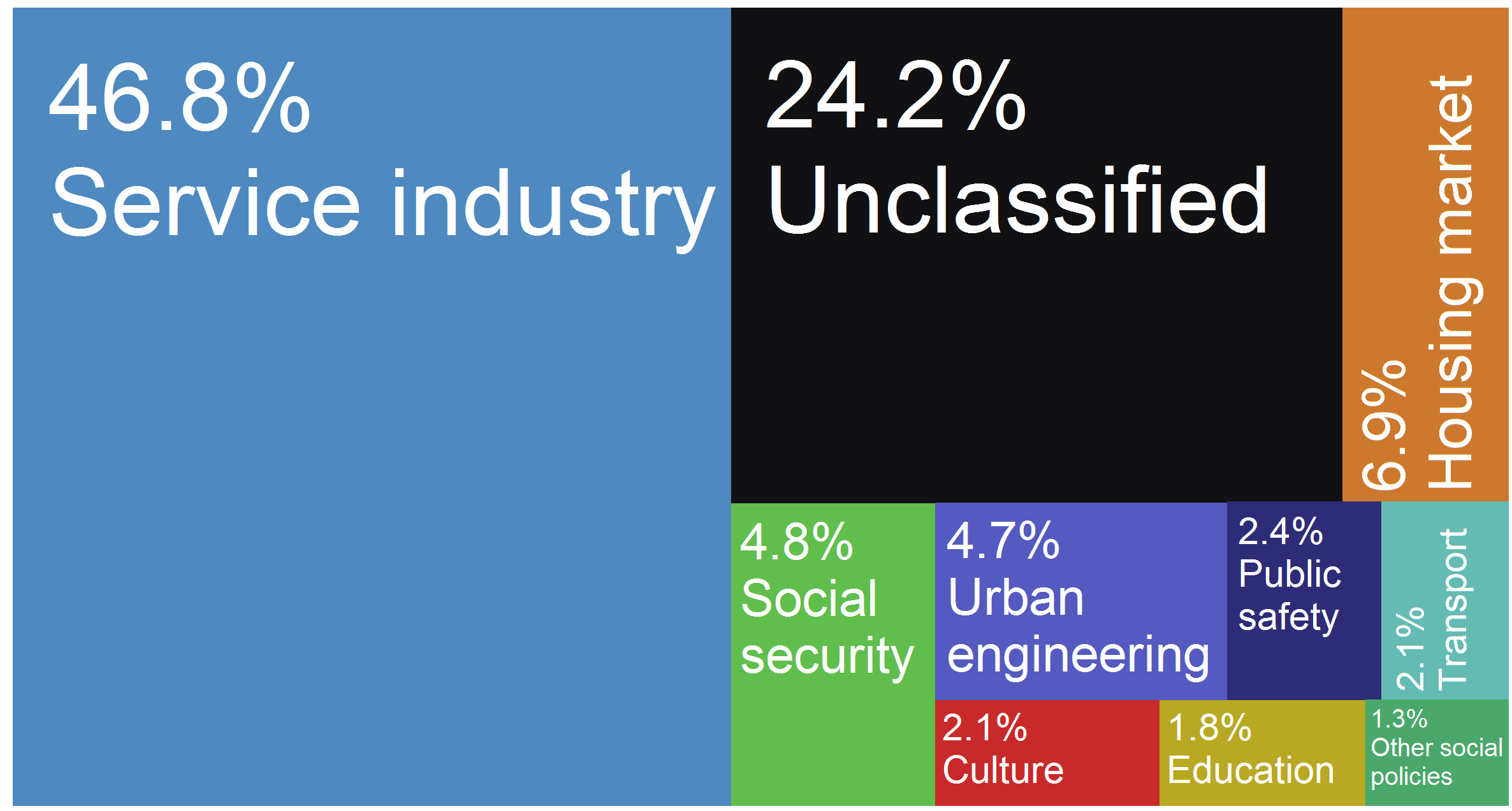 Diagram illustrating the city's budget sources.